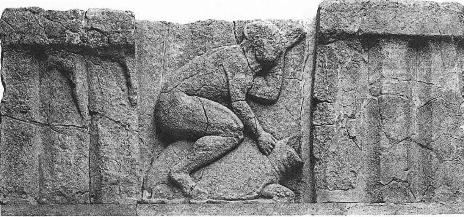 Figure riding a sea turtle, probably depicting an ancient Greek fable similar to Ulysses' Return to the Homeland (Nostos)